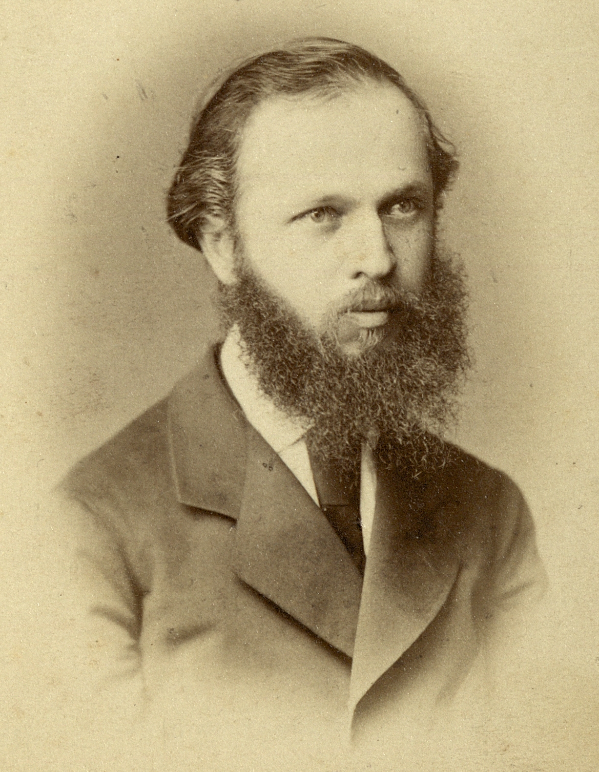 Viljem Pfeifer (1842-1917), slovene politician.